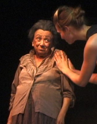 Judith Malina in The Living Theatre production of Maudie and Jane source: cropped video still I am author and owner Wwwhatsup (talk) 04:03, 17 April 2008 (UTC)